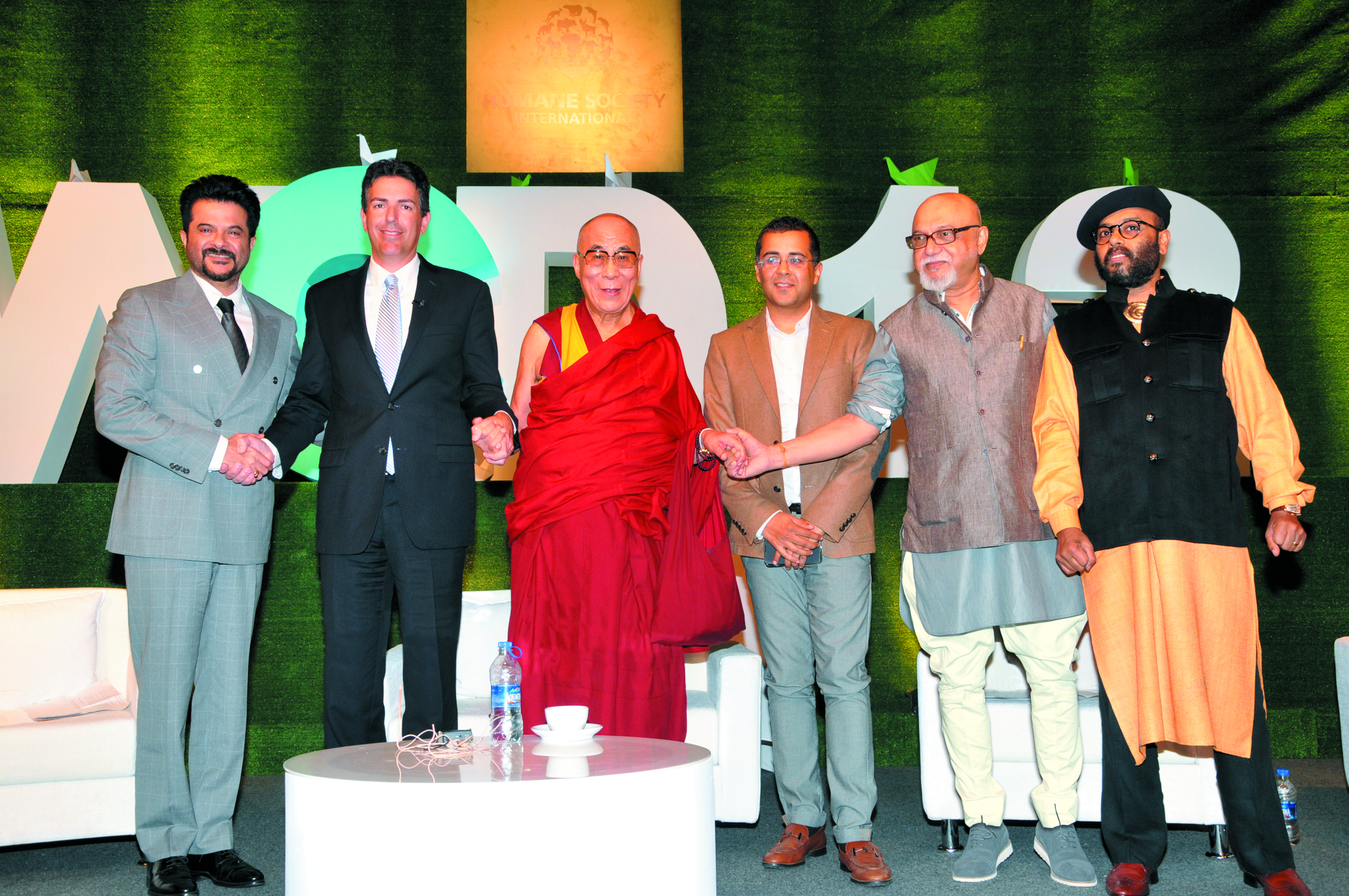 Anil Kapoor, Wayne Pacelle, His Holiness, Chetan Bhagat, Pritish Nandy and Paresh Maity on the occasion of World Compassion Day 2012